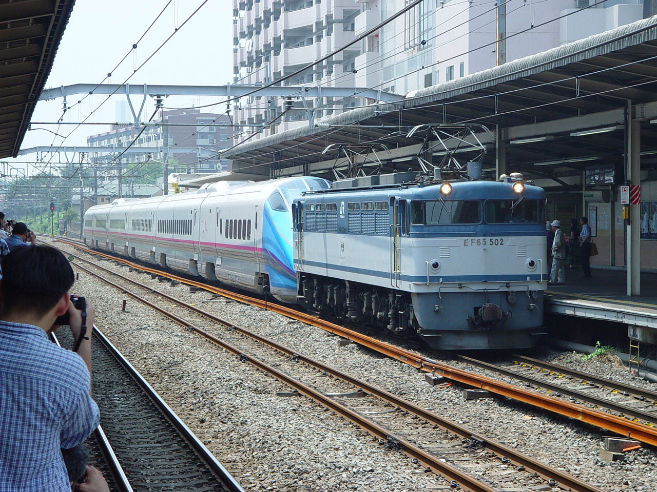 Class EF65-500 electric locomotive EF65 502 hauls E3 series shinkansen set R25 through Nishi-Kokubunji Station on delivery from Kawasaki Heavy Industries in Kobe